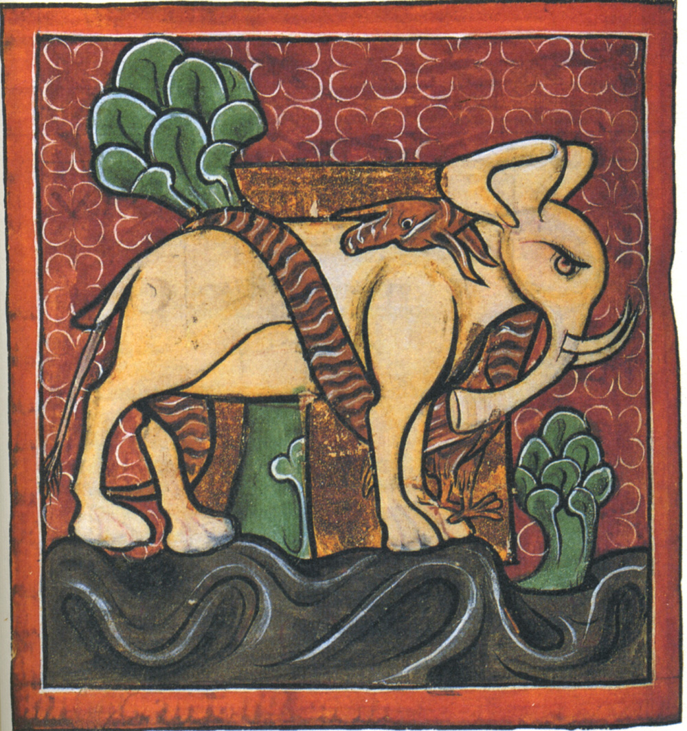 Elephant with dragon coiled around it: a page from a bestiary manuscript MS. Bodley 764, Bodleian Library, Oxford, England.